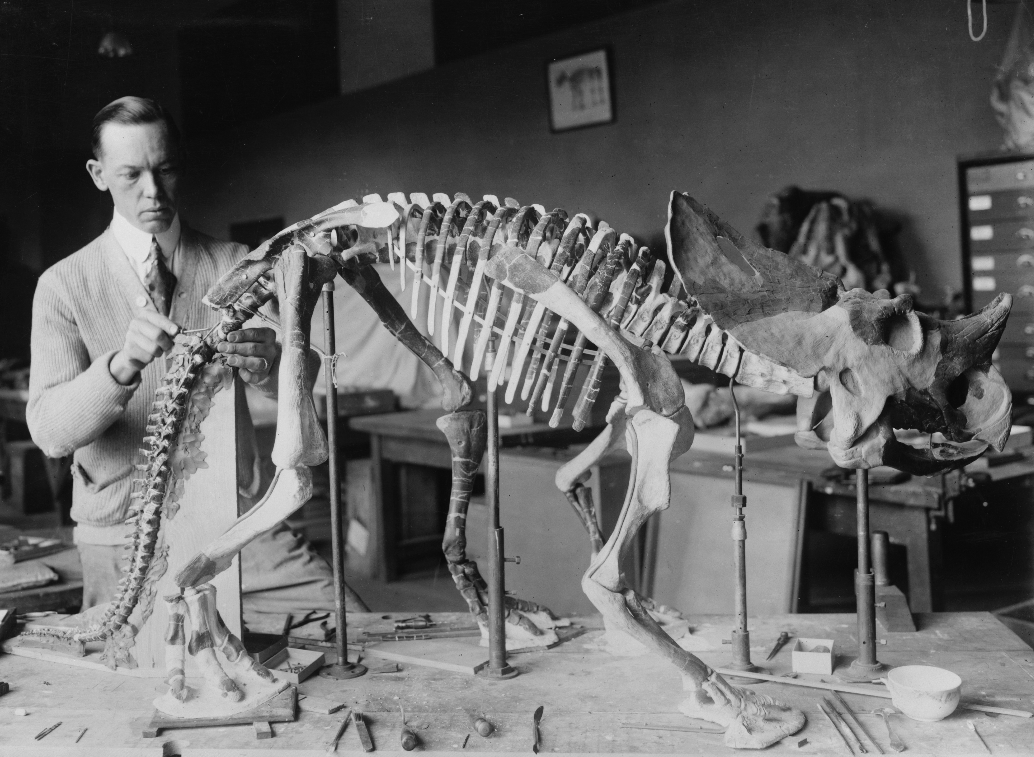 Norman Ross of the division of Paleontology, National Museum, preparing the skeleton of a baby Brachyceratops skeleton, some seventy or eighty million years old, for exhibition. Fossil found in Montana.